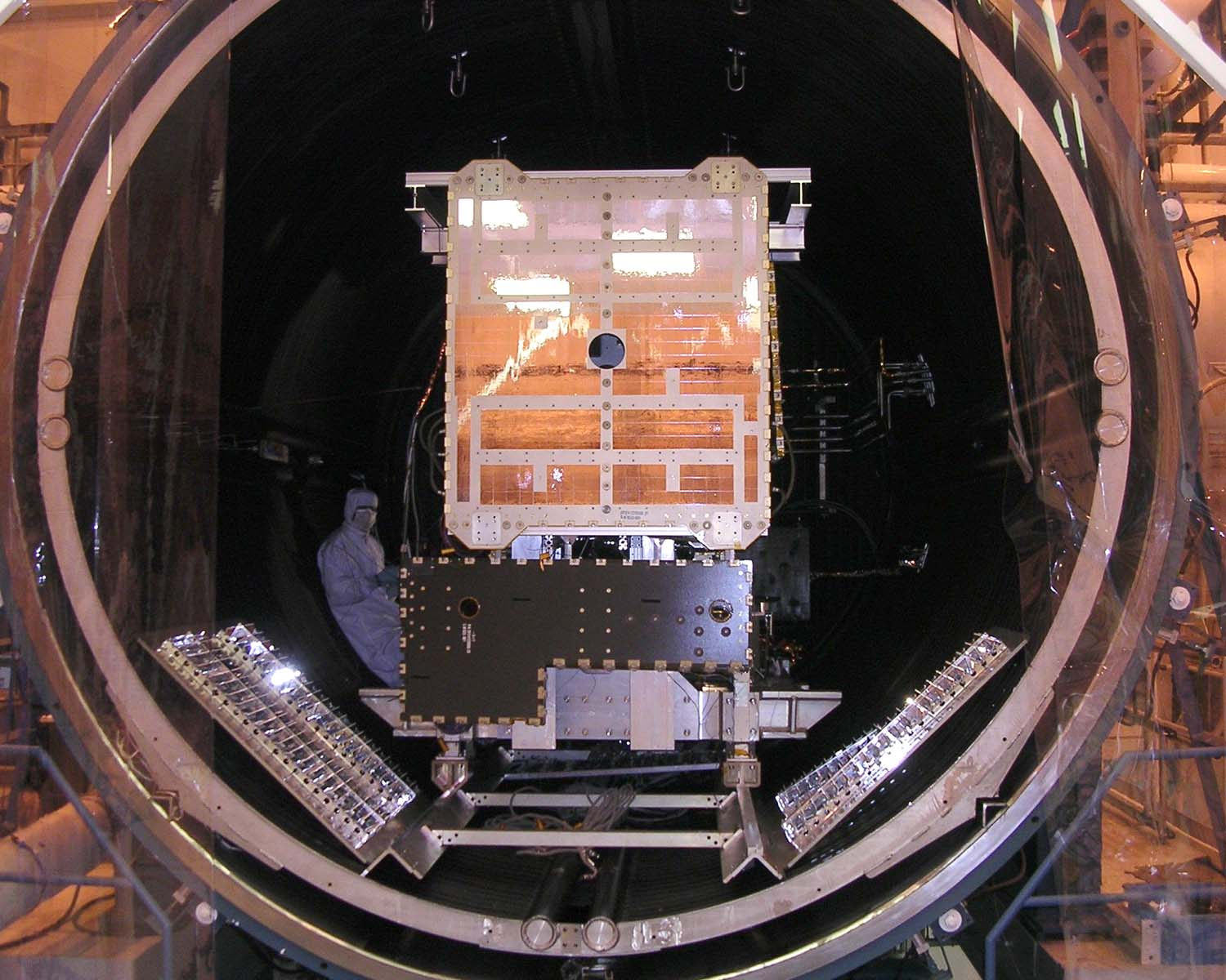 Dawn spacecraft in thermal vacuum chamber